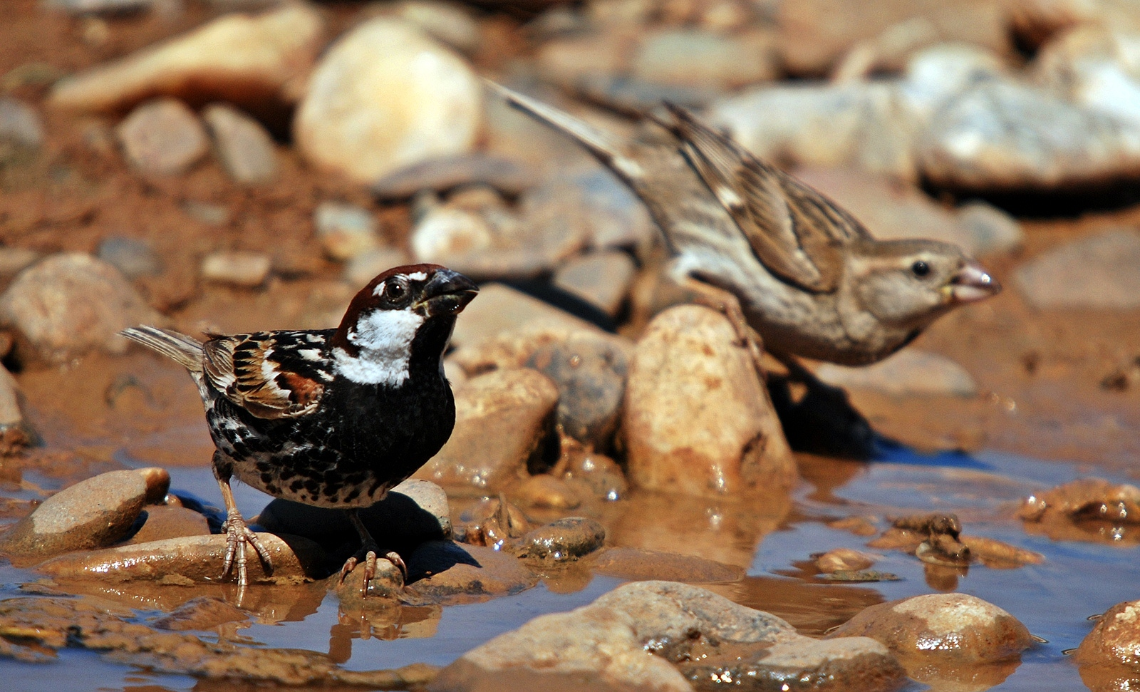 Spanish Sparrows in southeastern Turkey Kurdî: Li Qorixçî hatiye kişandin.